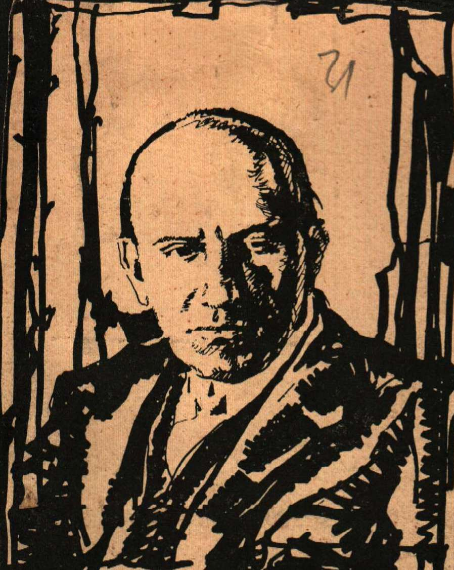 Emanuil Popdimitrov